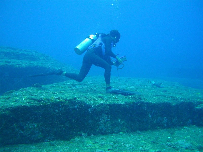 The Lost Kingdom of Mu, Yonaguni, Japan.